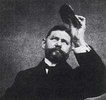 George Kunz examining what may be the crystal of kunzite shown here. From the Mineral Collector, Vol. X, No.8, October, 1903, pp. 113–114.